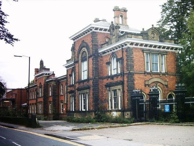 The old Withington Hospital, parts of which are still used in an out-patient basis.